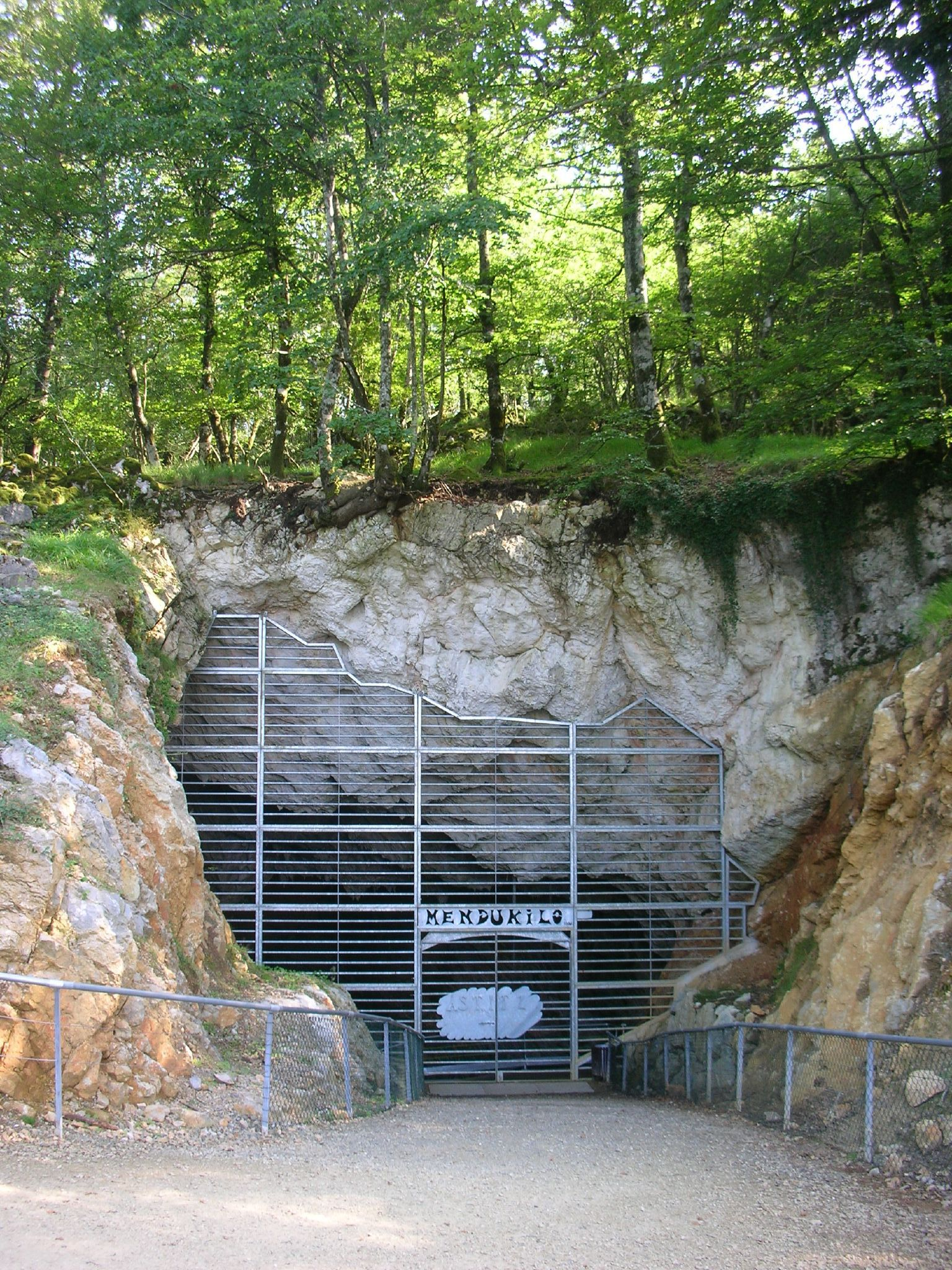 Entrance of Mendukilo cave, in Aralar